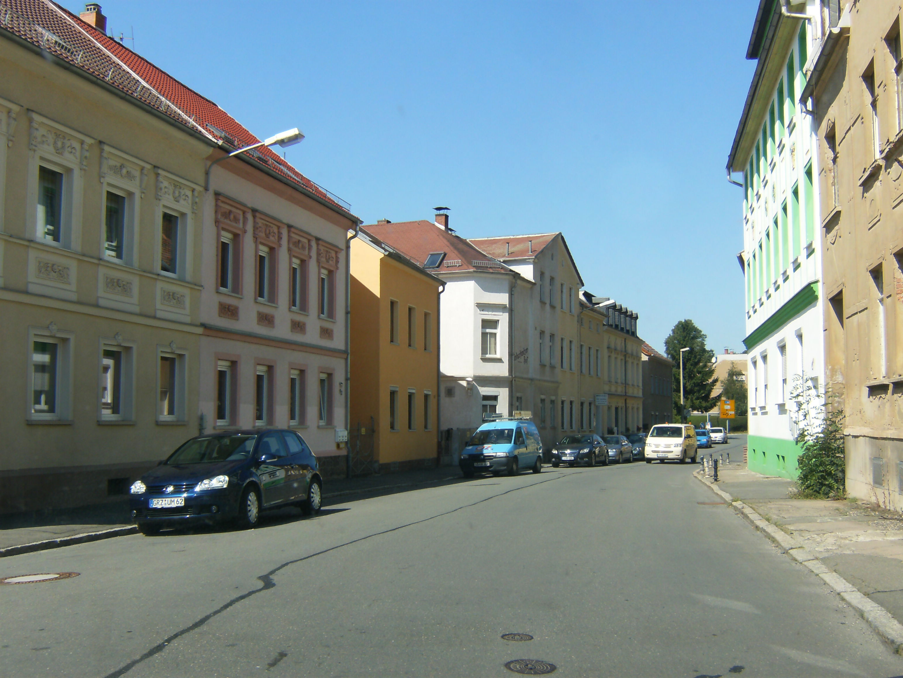 Lower part of Liebschwitz